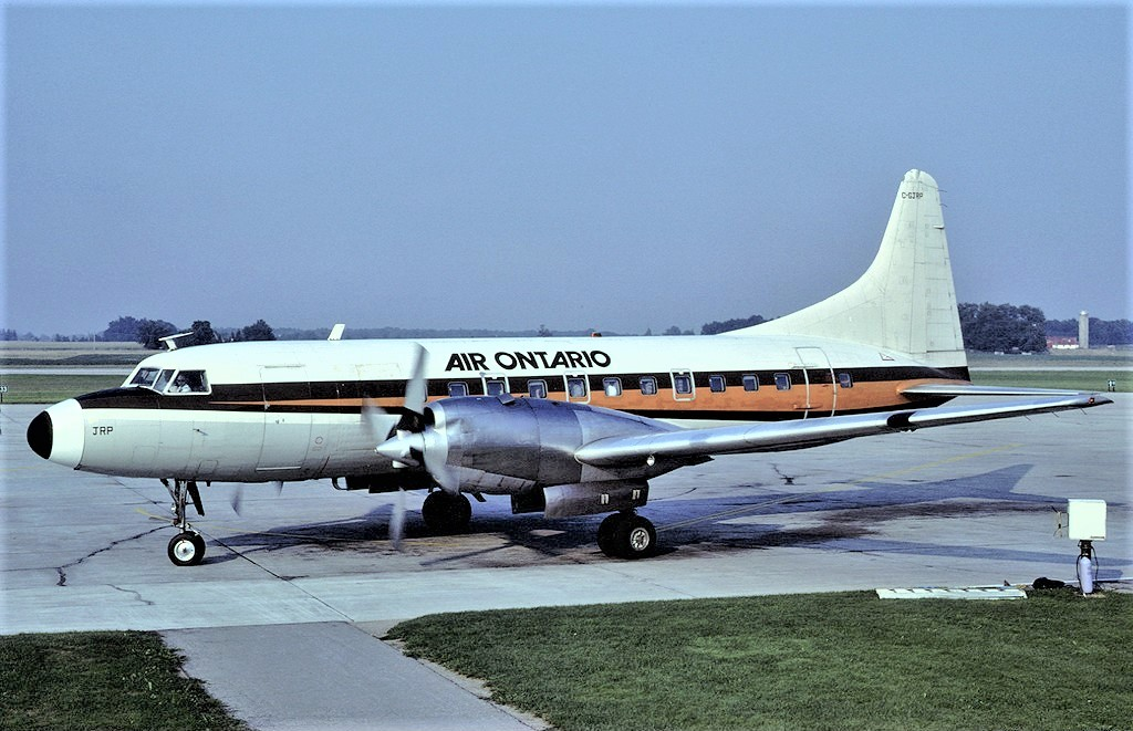 Air Ontario (with Great Lakes Airline cheatline) Convair 580 C-GJRP at London International Airport